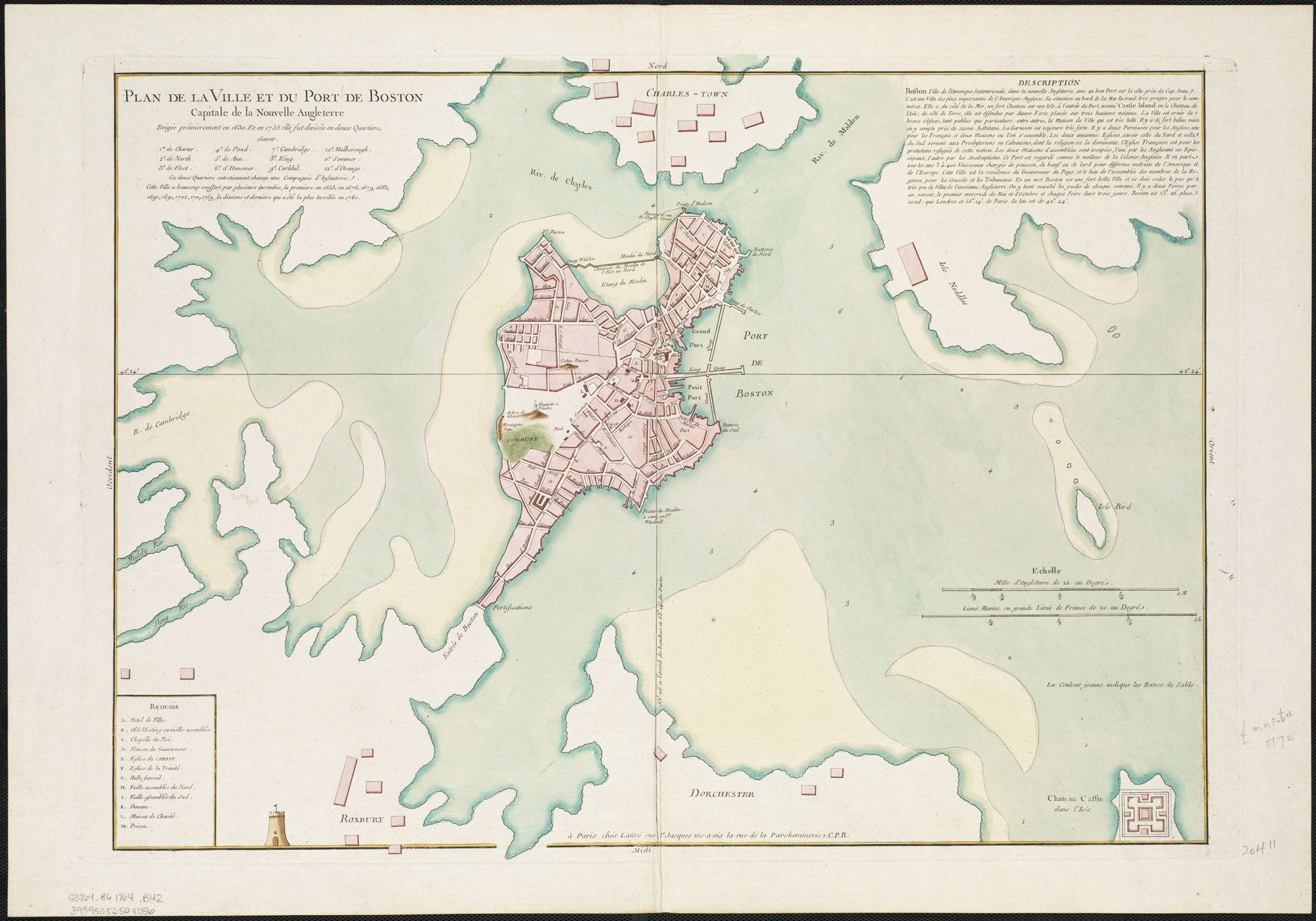 Zoom into this map at . Author: Bellin, Jacques Nicolas Publisher: Lattré (Chez) Date: 1764 Location: Boston (Mass.) Dimension 47x67cm Scale: ca. 1:11,300 Call Number: G3764.B6 1764 .B42